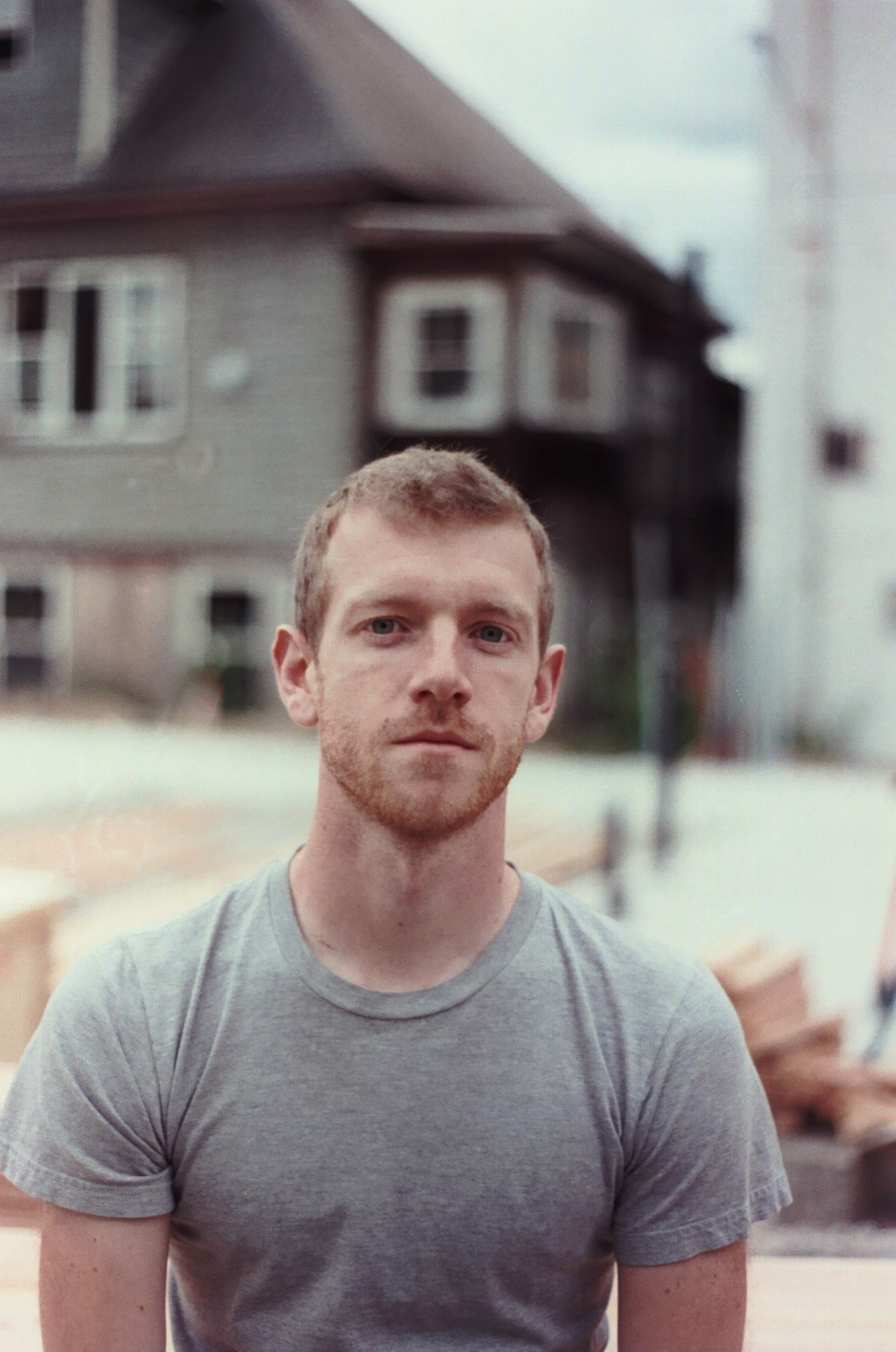 John Englehardt (John Lewis Englehardt III) fiction writer and author of the novel "Bloomland"(Dzanc Books, 2019). Photo taken June 2015 by Katharine Toombs in Central District Neighborhood of Seattle, Washington with 35mm Promaster.